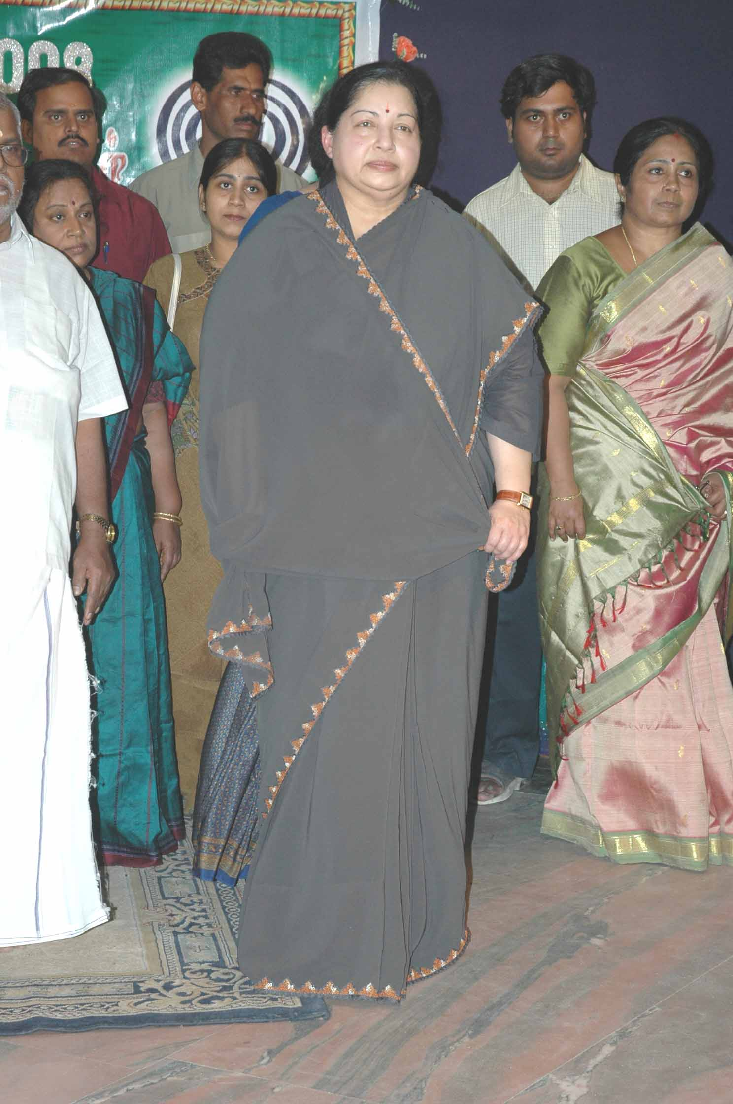 J. Jayalalithaa, the Chief Minister of Tamil Nadu, India.